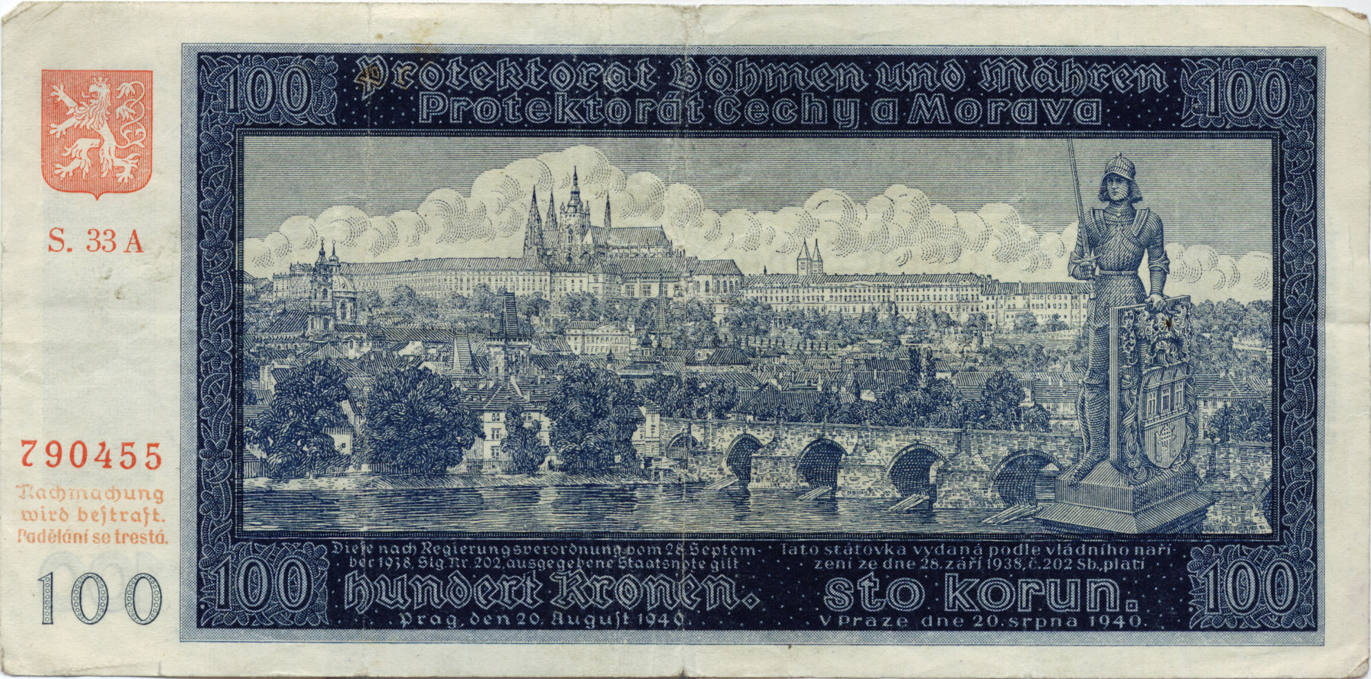 100 Korun Note of Bohemia and Moravia